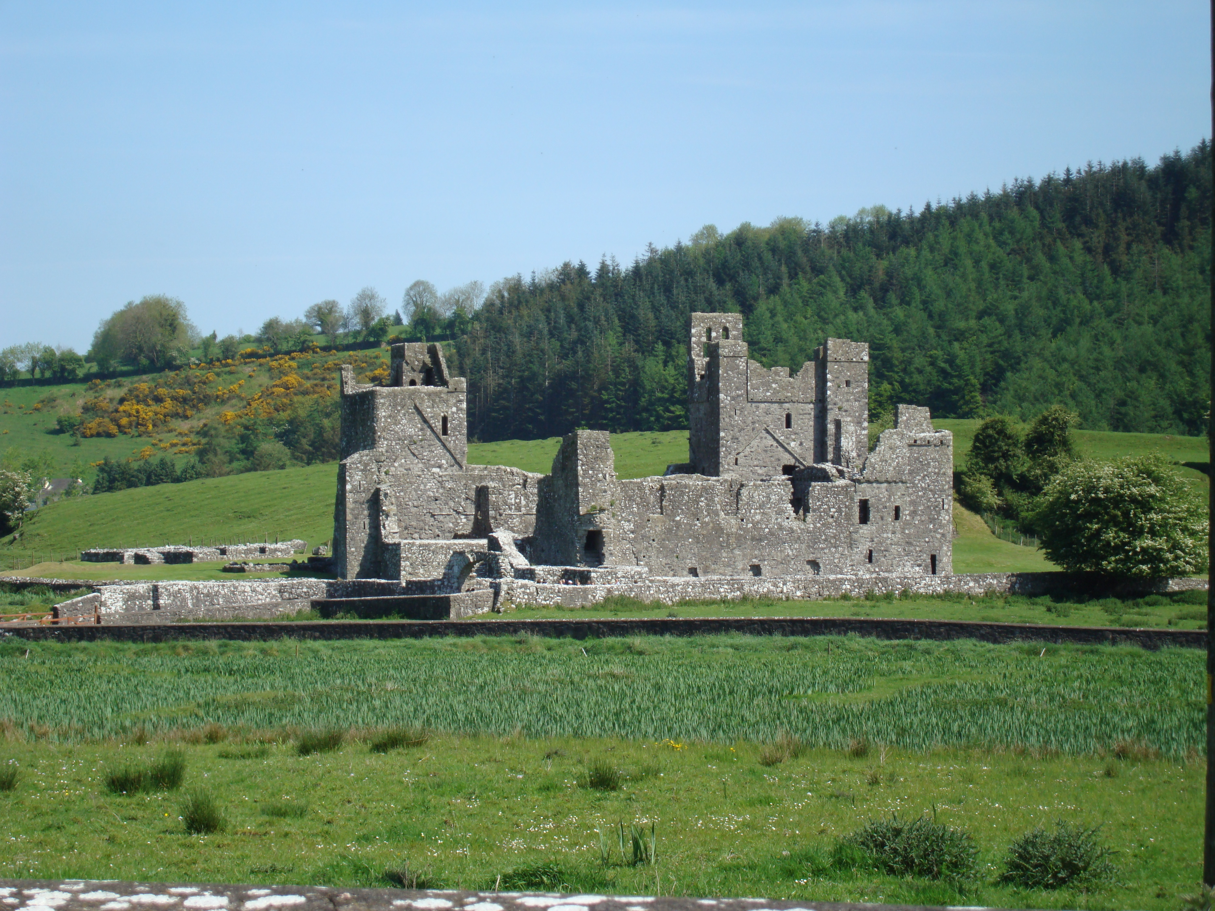 Photograph of tbe remains of Fore Abbey, Co Westmeath, Republic of Ireland